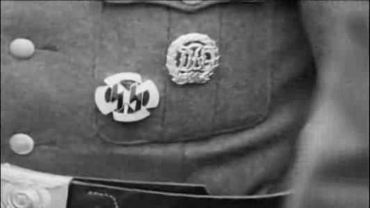 Lower left the Germanic Proficiency Runes in silver and upper right the German Sports Badge (DRL) with swastika. Video still image number 3187 of 14239, at 02:10. See also File: Waffen-SS memorial and raw footage (Denmark, 1944).ogv